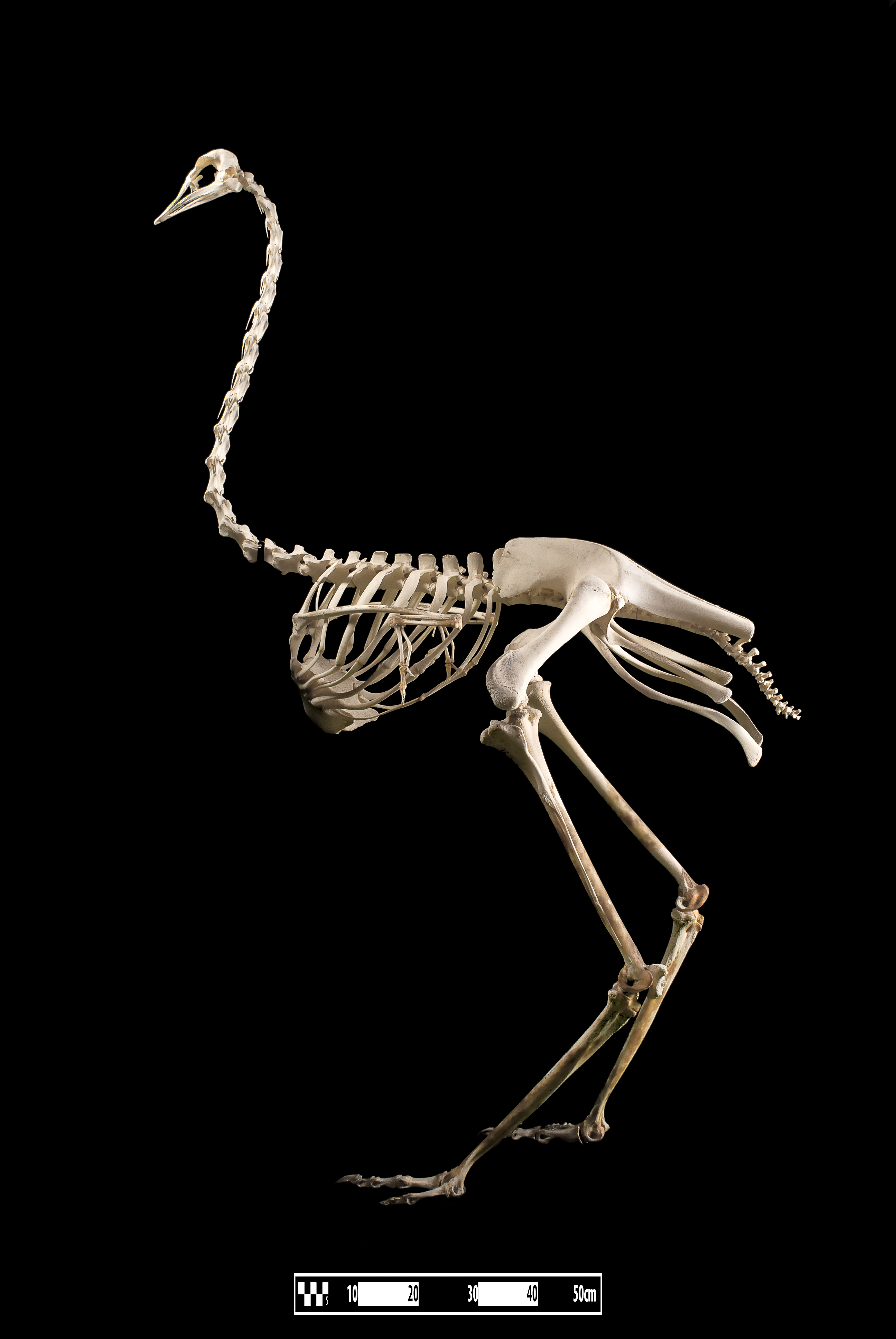 Ostrich (Struthio camelus). Specimen of ostrich skeleton prepared by the bone maceration technique and on display at the Museum of Veterinary Anatomy FMVZ USP. Adults may have a height from 1.7 to 2.5 m and a weight of 150 kg. They have excellent eyesight and hearing, having the biggest eyes among vertebrates. They have three stomachs and the largest eggs among birds, coming to weight 1.3 kg. Ostriches can run up to 70 km/h to avoid predators. They eat seeds, fruits, grass and flowers. This file was published as the result of a partnership between the Museum of Veterinary Anatomy FMVZ USP, the RIDC NeuroMat and the Wikimedia Community User Group Brasil. This GLAM project is reported. Photography: Museum of Veterinary Anatomy FMVZ USP. Author: Wagner Souza e Silva.